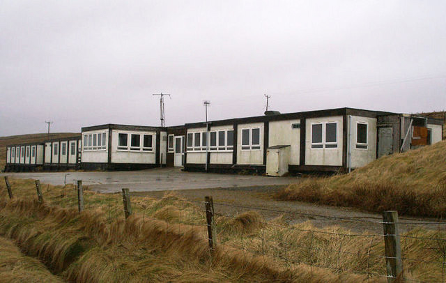 North Isles Motel THis ramshackle collection of portacabins was run as a motel for many years.